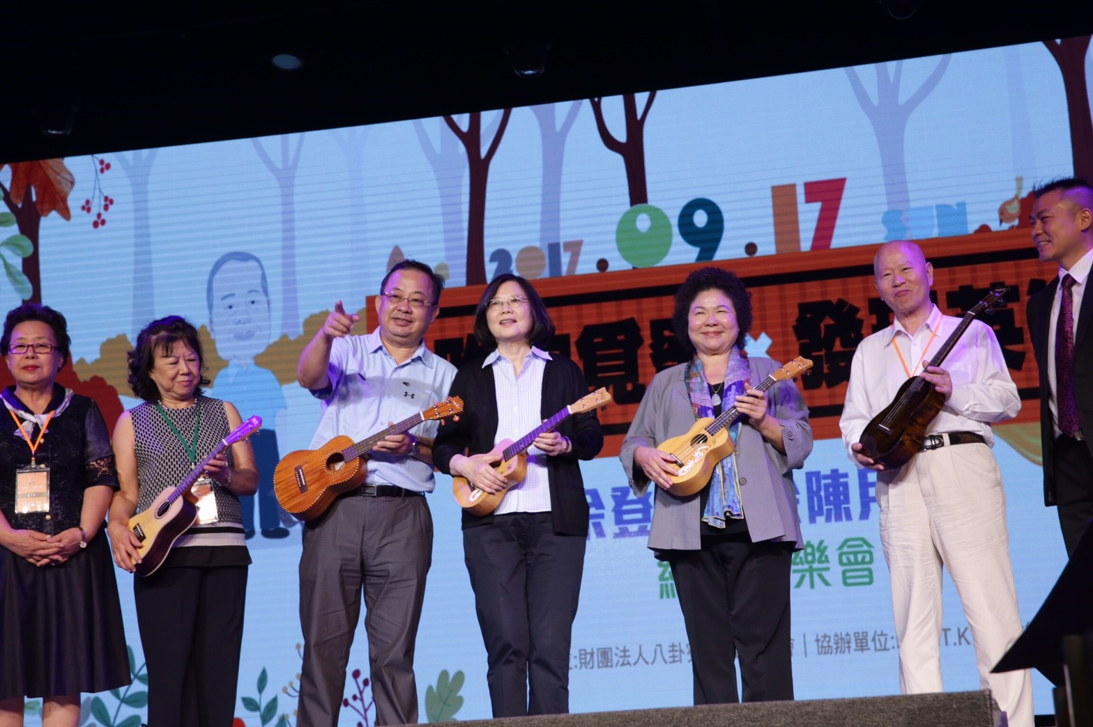 授權方式及範圍：中華民國總統府│政府網站資料開放宣告 Authorization Method & Scope: Office of the President, Republic of China (Taiwan) | Government Website Open Information Announcement